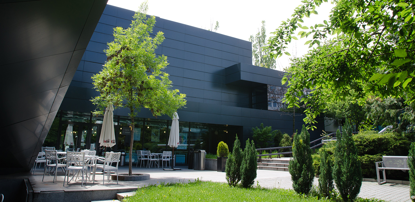 An entry of the Theatre of the New Bulgarian University